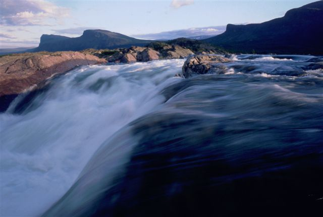 Stora Sjöfallet waterfall near Ritsem, Schweden